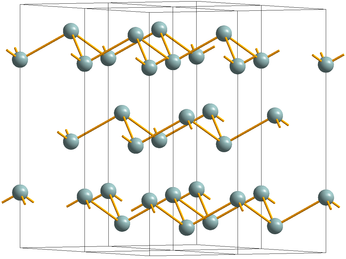 4 unit cells of the crystal structure common to arsenic, antimony and stibarsen (AsSb). (space group R3m No. 166).